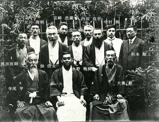 Shūmei Ōkawa, Tōten Miyazaki, Ryōhei Uchida, Tasuku Nakamura, Junzō Sugimoto, medical doctor Ikeda, Nobuo Tsukuda, Baigyō Mizuno, Yoshihisa Kuzuu, Tōru Terao, Rash Behari Bose and Tsuyoshi Inukai